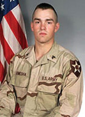 U.S. Medal of Honor recipient, Clinton Romesha, in a photograph taken by the U.S. Army.